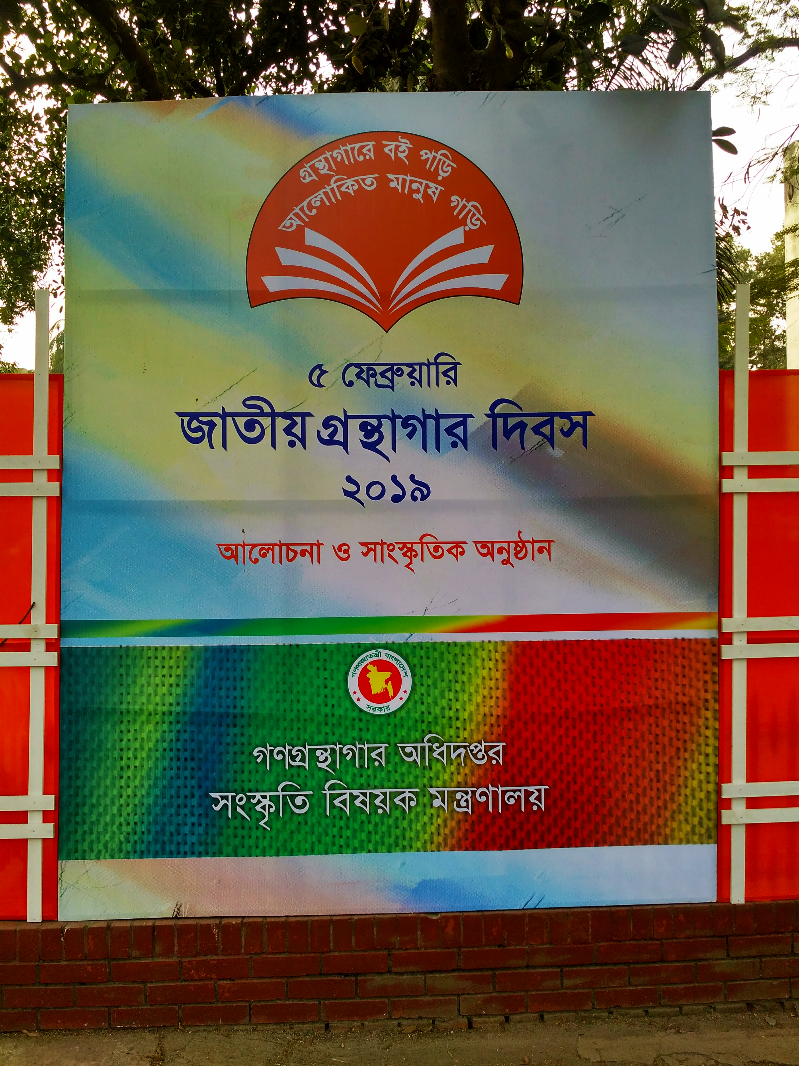 A poster of national library day of Bangladesh celebrated on 5th February every year. Place :National Public Library, Shahbagh, Dhaka.